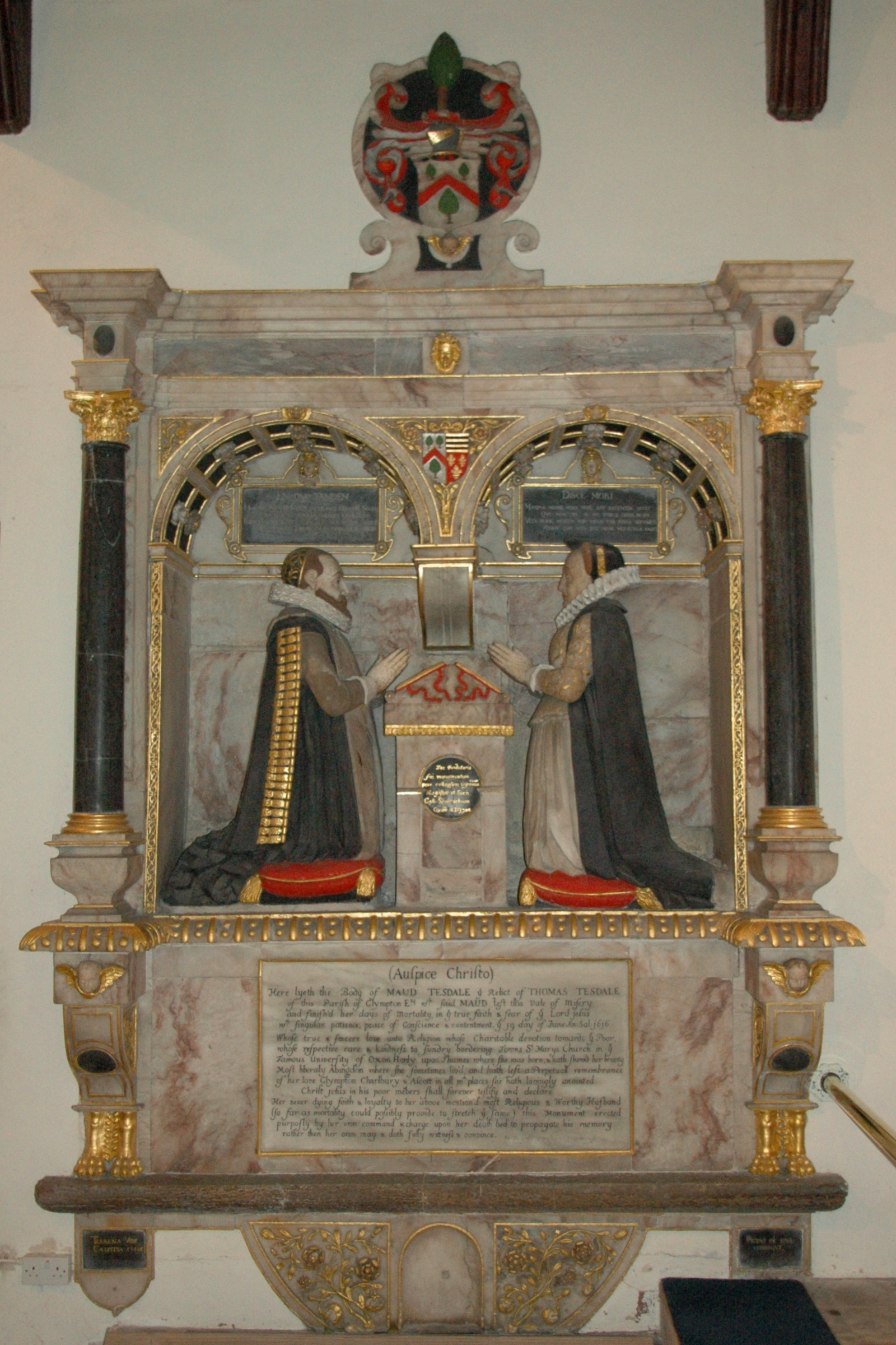 Alabaster monument to Thomas and Maud Tesdale in Church of England parish church of St Mary, Glympton, Oxfordshire.